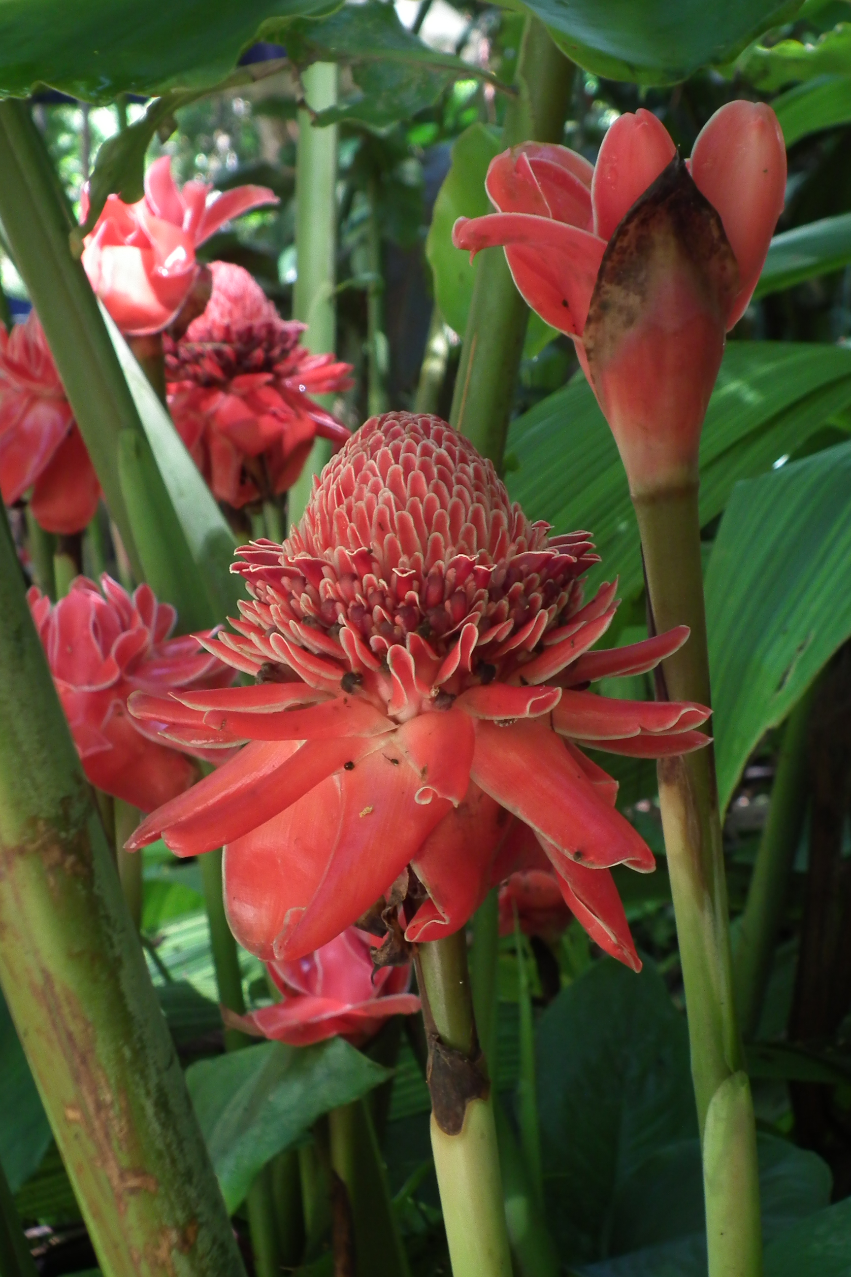 Etlingera elatior Torch Ginger, Luang Phabang